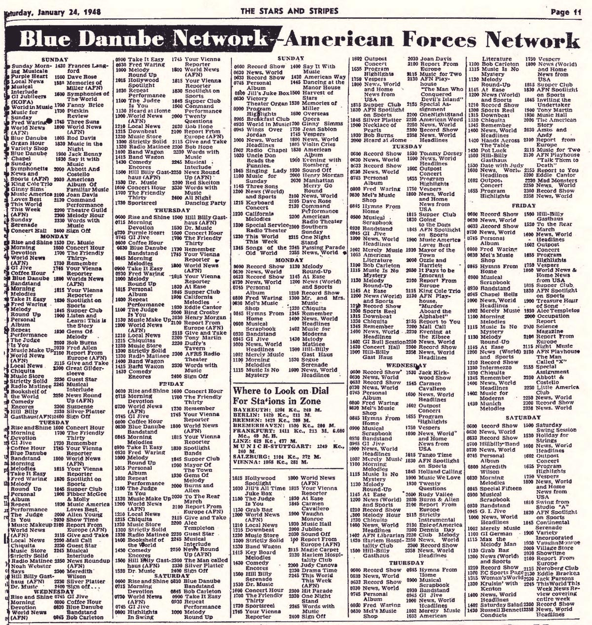 American Forces Network and Blue Danube Network schedule, January 1948